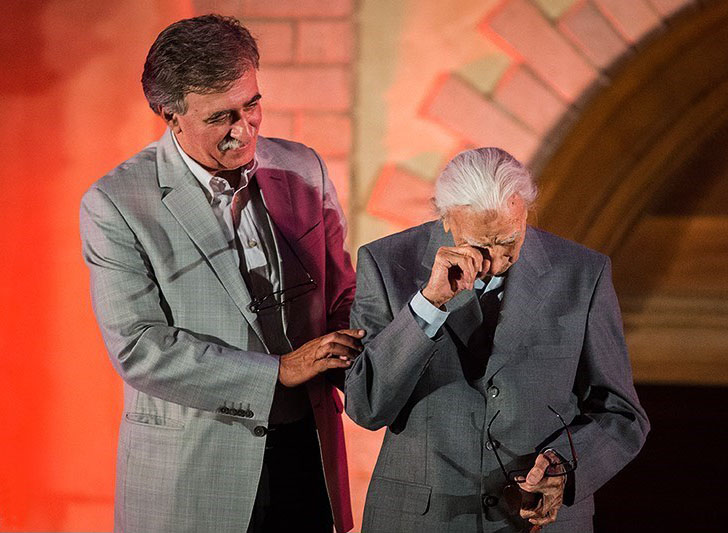 17th Iranian cinema celebration was held in Masoudieh Mansion by Iran's House of Cinema.